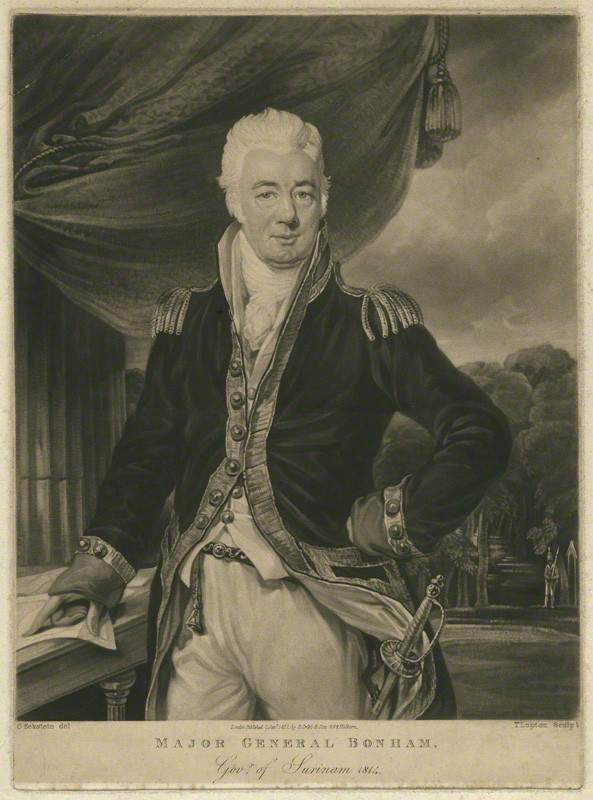 Pinson Bonham (1762-1855), Governor of Surinam. Published 1817.